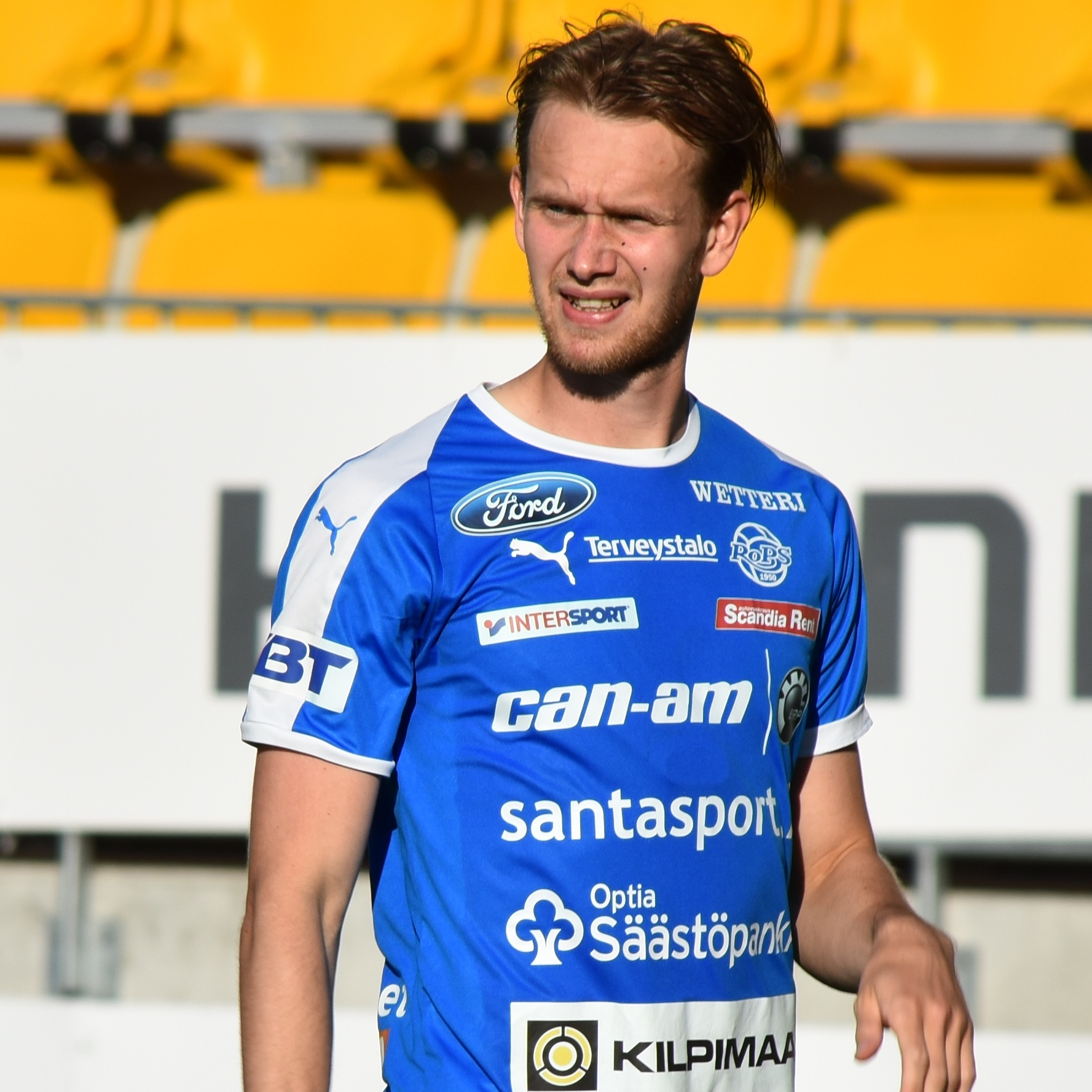 Association football player Juuso Hämäläinen (RoPS)